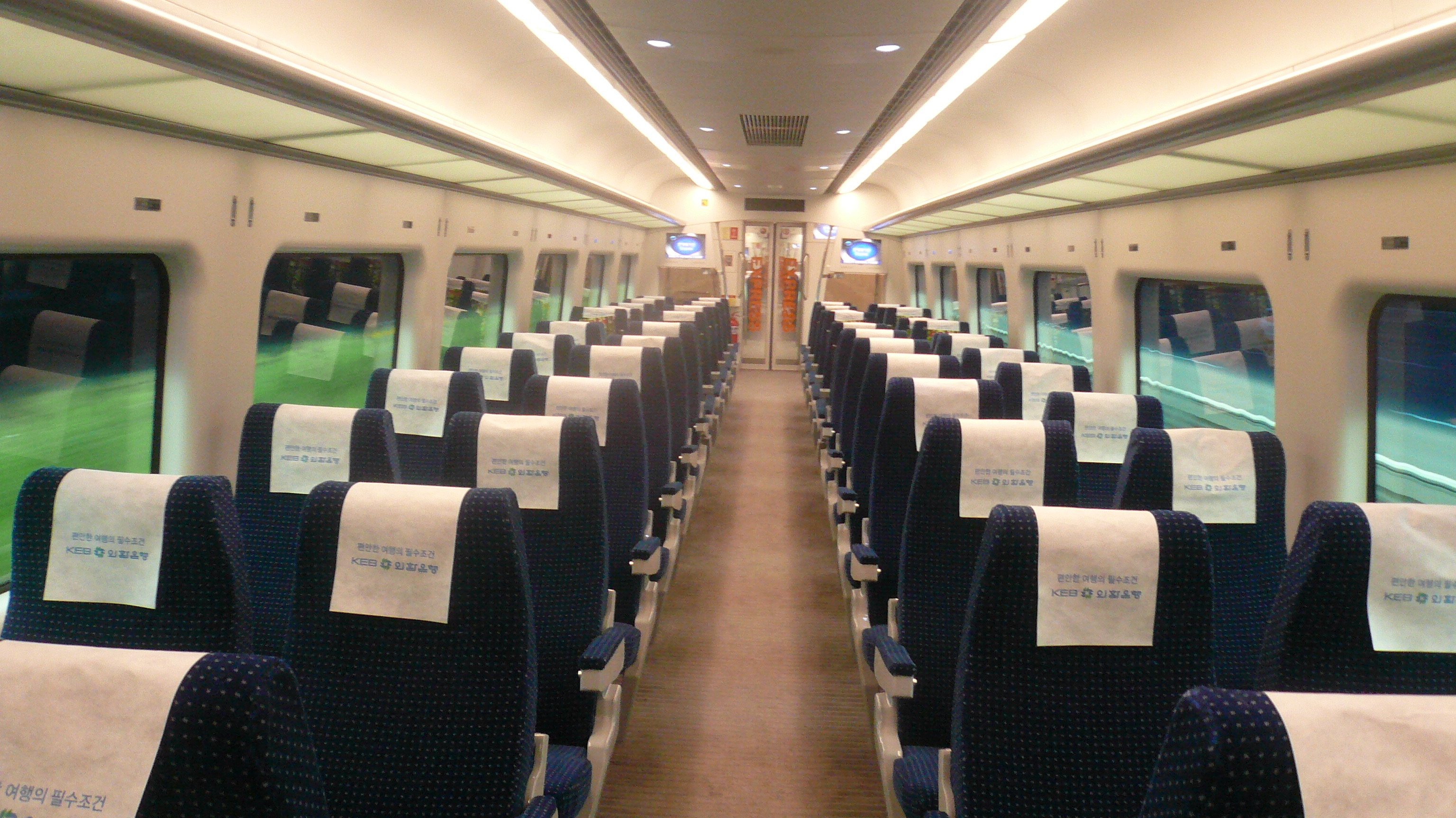 Inside an A'Rex train, coming from the airport